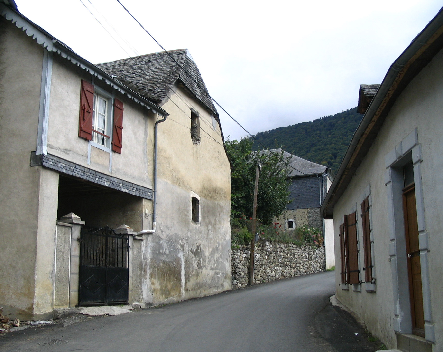 Rue principale d'Assouste - Pyrénées Atlantique - France main street of Assouste in the French Pyreneas. Auteur/author: P.Charpiat - 2006